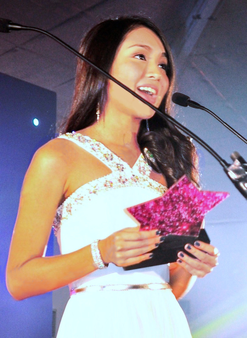 Kathryn Bernardo presenting one of the awards at the 2013 Candy Style Awards on May 10, 2013.